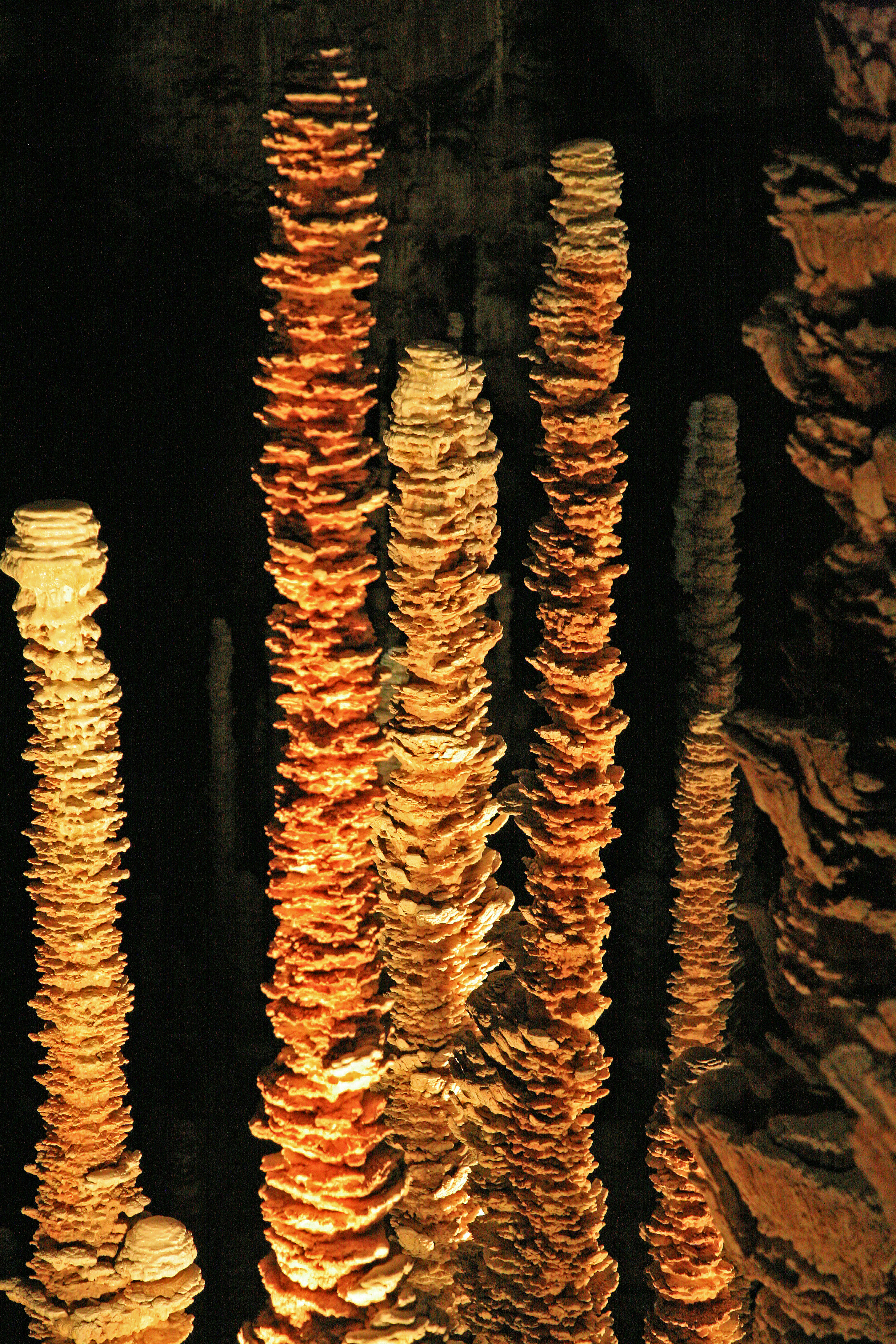 Aven Armand, a cave with many stalactites near the village Meyrueis in France.